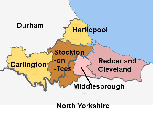 Map of the Tees Valley Region in the north of England